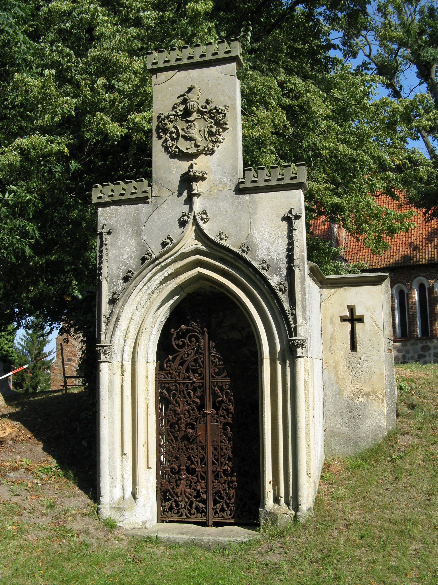 Grave at church yard in Recknitz, disctrict Güstrow, Mecklenburg-Vorpommern, Germany